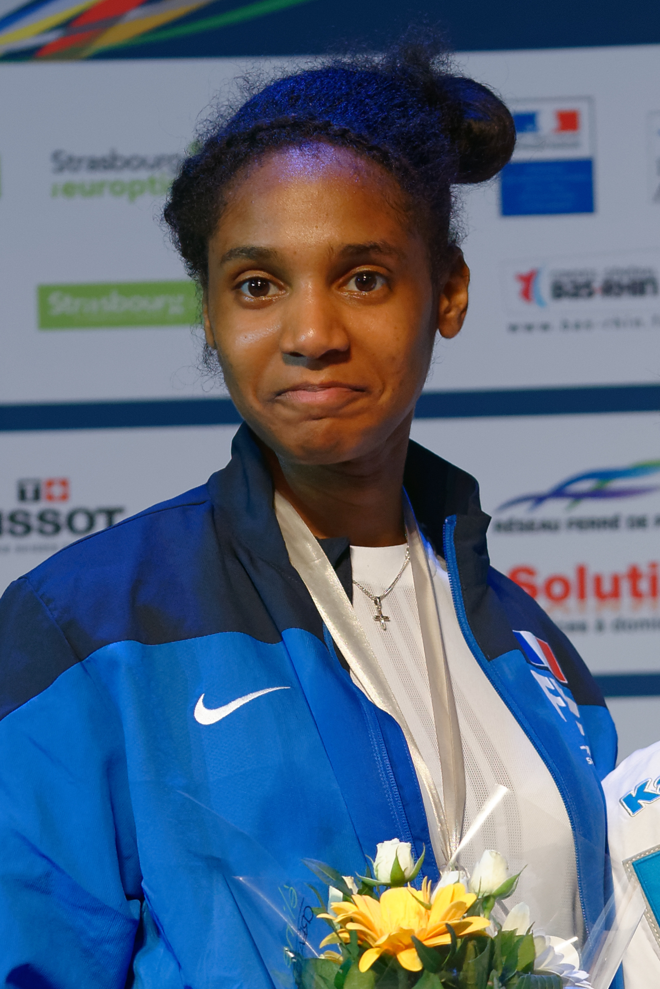 France's Marie-Florence Candassamy stands on the women's épée podium at the European Fencing Championships at Rhénus Sport in Strasbourg on 8 June 2014.